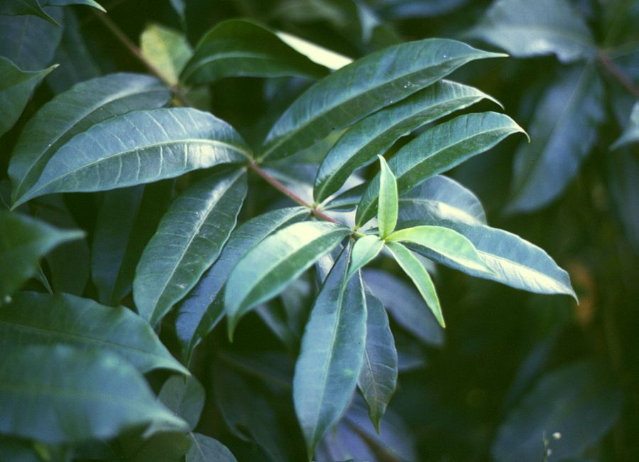 Allamanda cathartica, Apocynaceae - Kambodscha/Cambodia, Sihanoukville, S Weather Station Hill